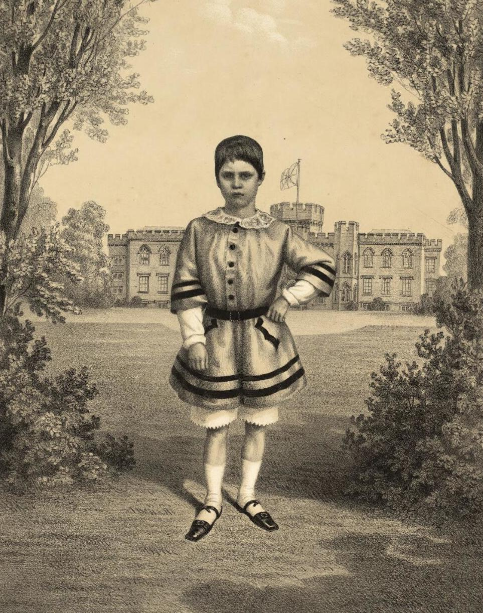 A portrait from the Welsh Portrait Collection at the National Library of Wales. Depicted person: John Crichton-Stuart, 3rd Marquess of Bute – Scottish aristocrat, industrial magnate and architectural patron